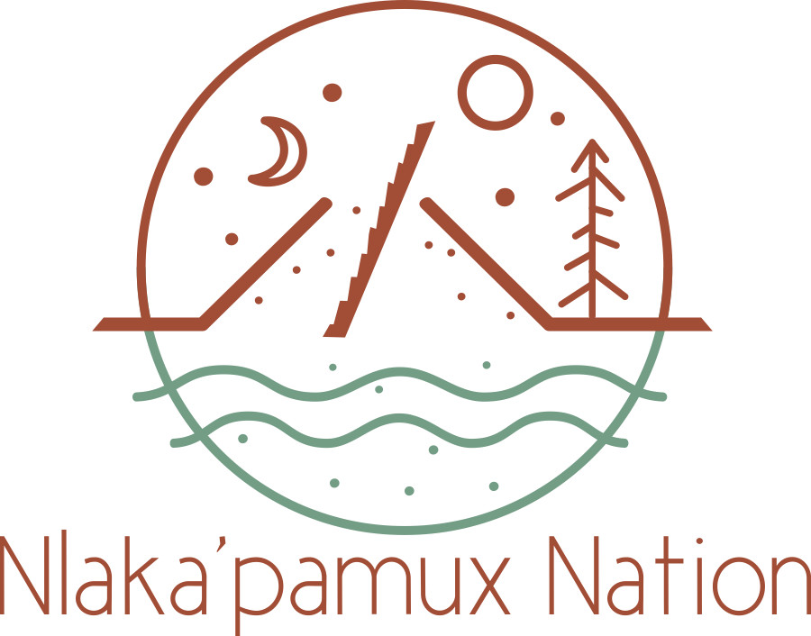 Flag of the Nlaka'pamux Nation. Created by Alice Joe for the nation to use.